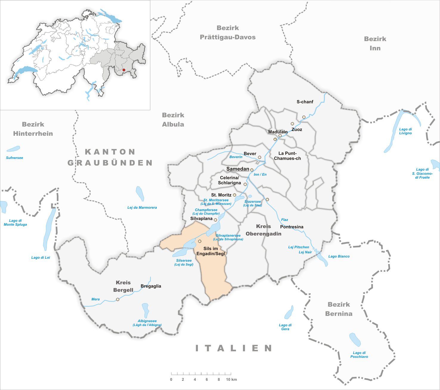 Municipality Sils im Engadin/Segl